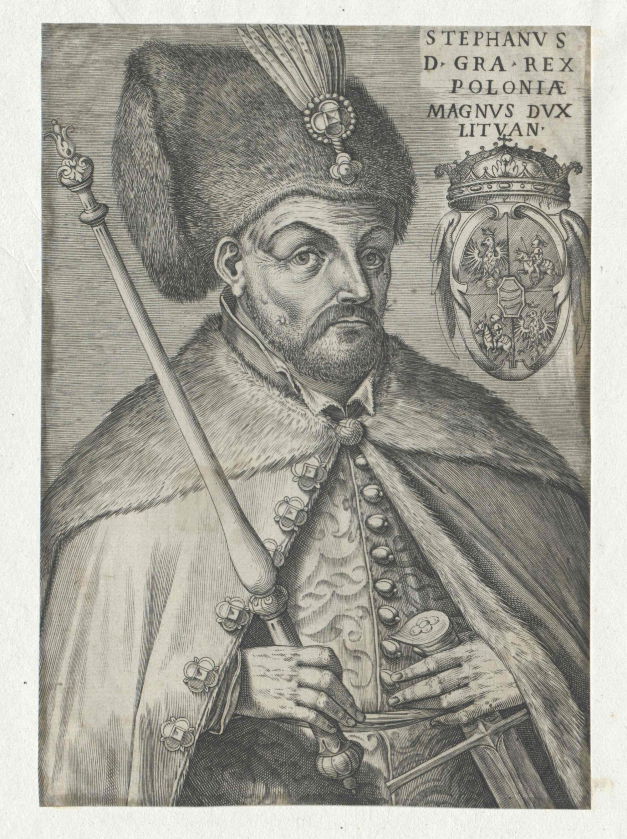 Bátory, Stephan (1533 - 1586)